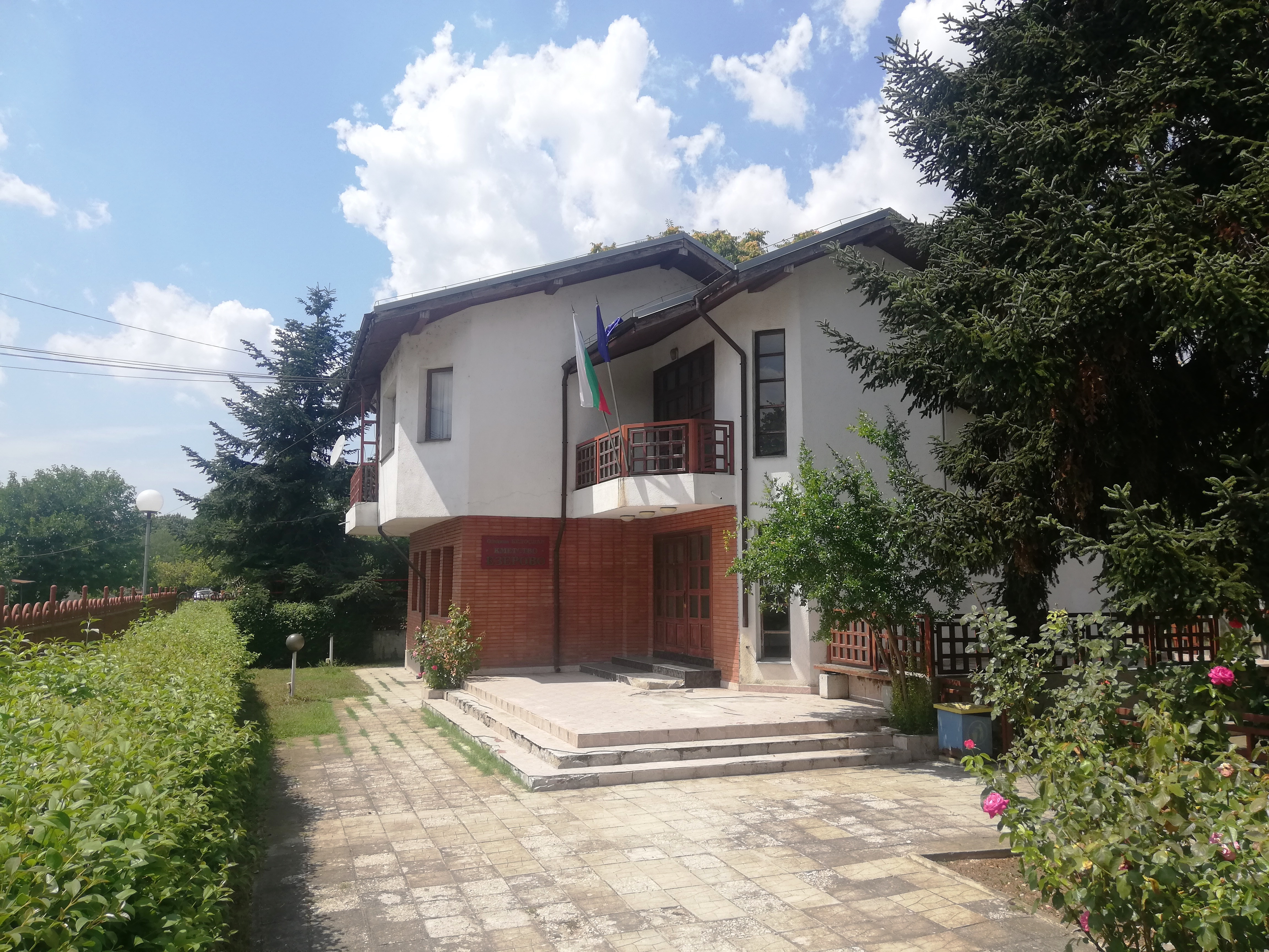 Mayor's place in Ezerovo, Varna Province